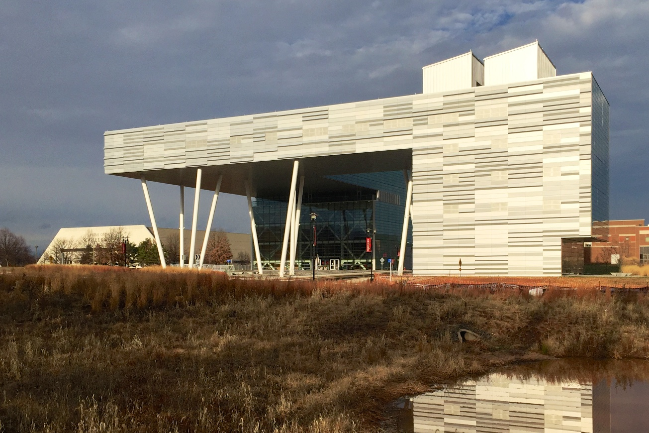 Rutgers Business School at 100 Rockafeller Road on the Livingston Campus in Piscataway, NJ.